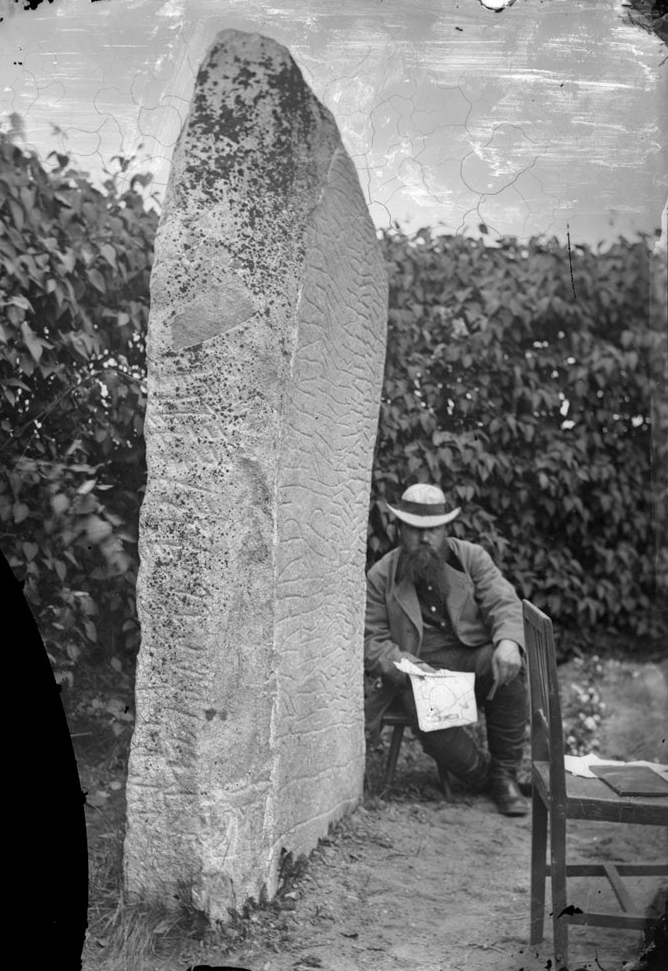 National antiquarian Hans Hildebrand sitting beside the Rök rune stone